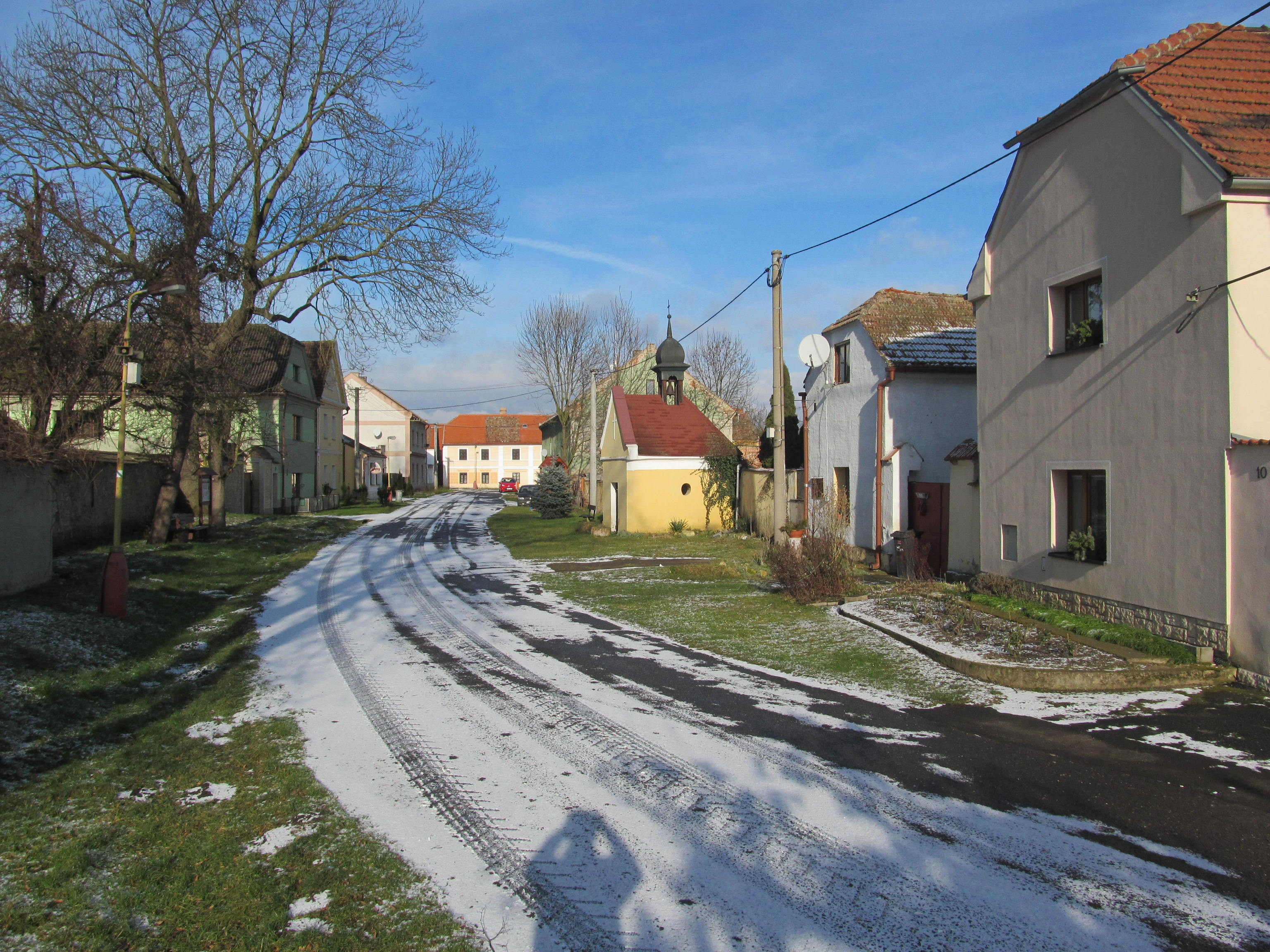 Village square in Želevice